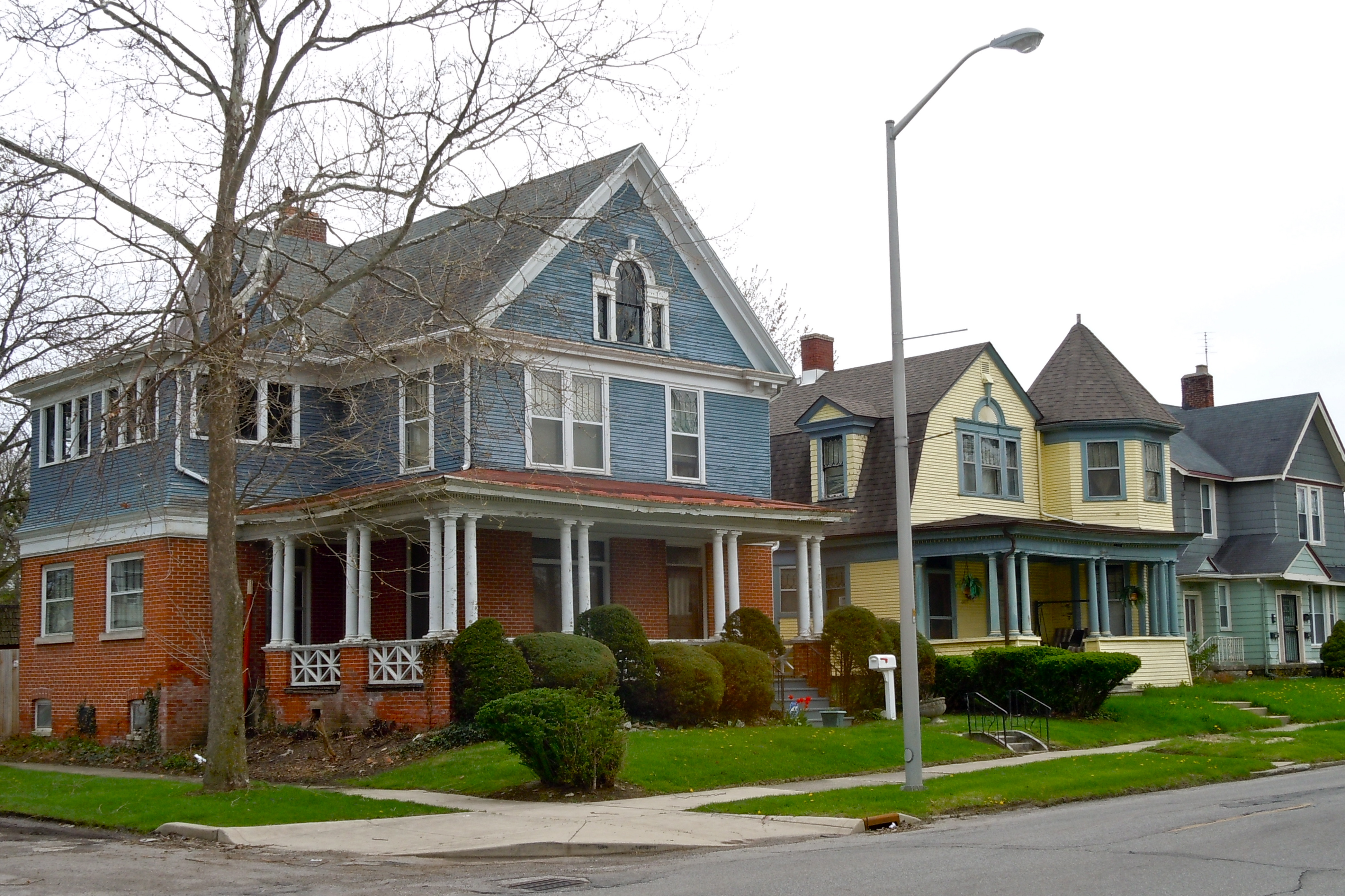 Houses in the Williams-Woodland Park Historic District, on the NRHP since March 14, 1991. The historic district is roughly bounded by Hoagland and Creighton Aves. and Harrison and Pontiac Sts., Fort Wayne, Allen County, Indiana. These particular houses are on or near Creighton Ave.